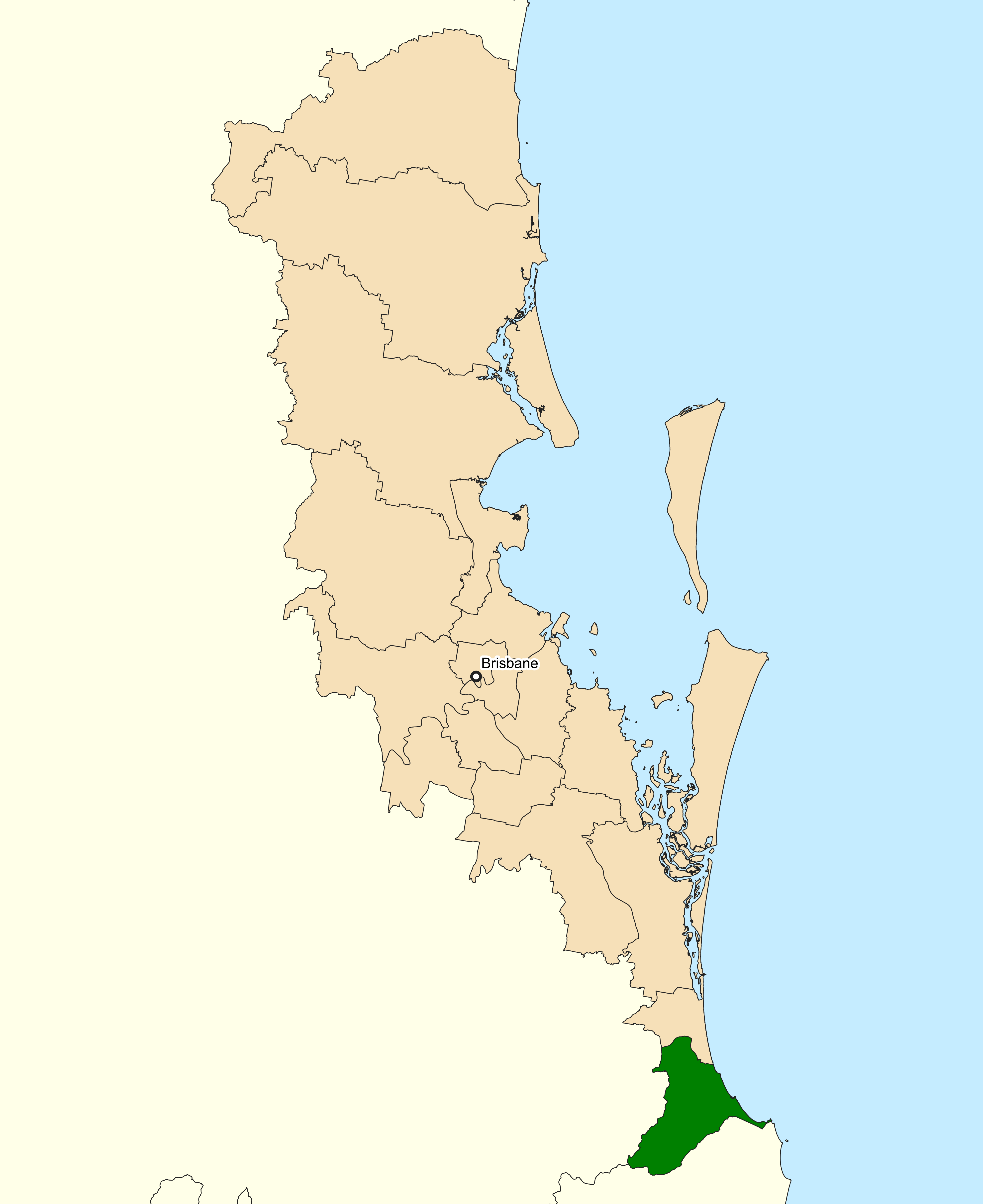 Location of the Australian federal electoral division of McPherson (dark green) in Greater Brisbane, Queensland as of the 2019 Australian federal election. Incorporates or developed using Administrative Boundaries ©PSMA Australia Limited licensed by the Commonwealth of Australia under Creative Commons Attribution 4.0 International licence (CC BY 4.0).